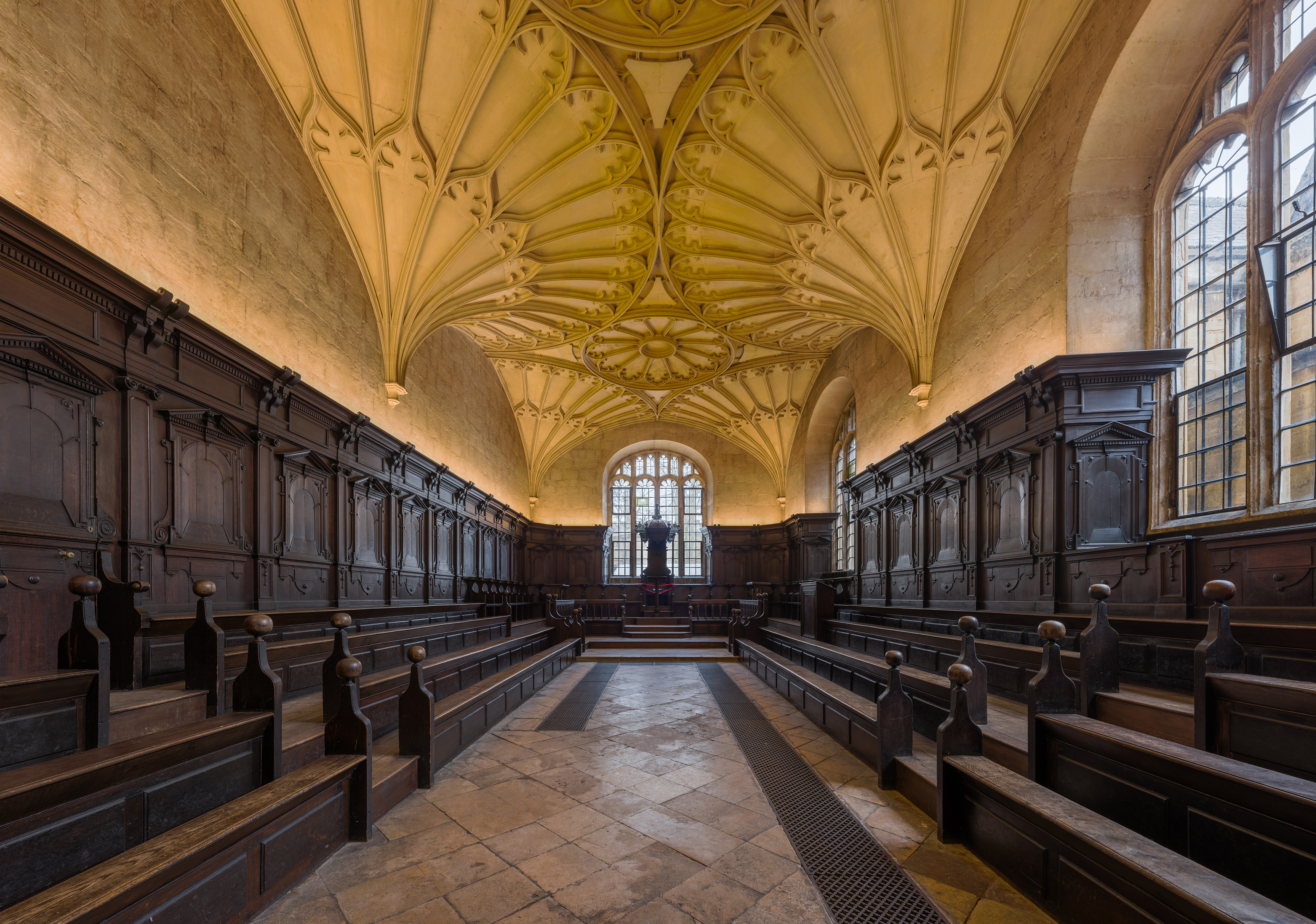 The interior of Convocation House looking south. Convocation House is part of the Bodleian Library and was formerly a meeting chamber for the House of Commons during the English Civil War.